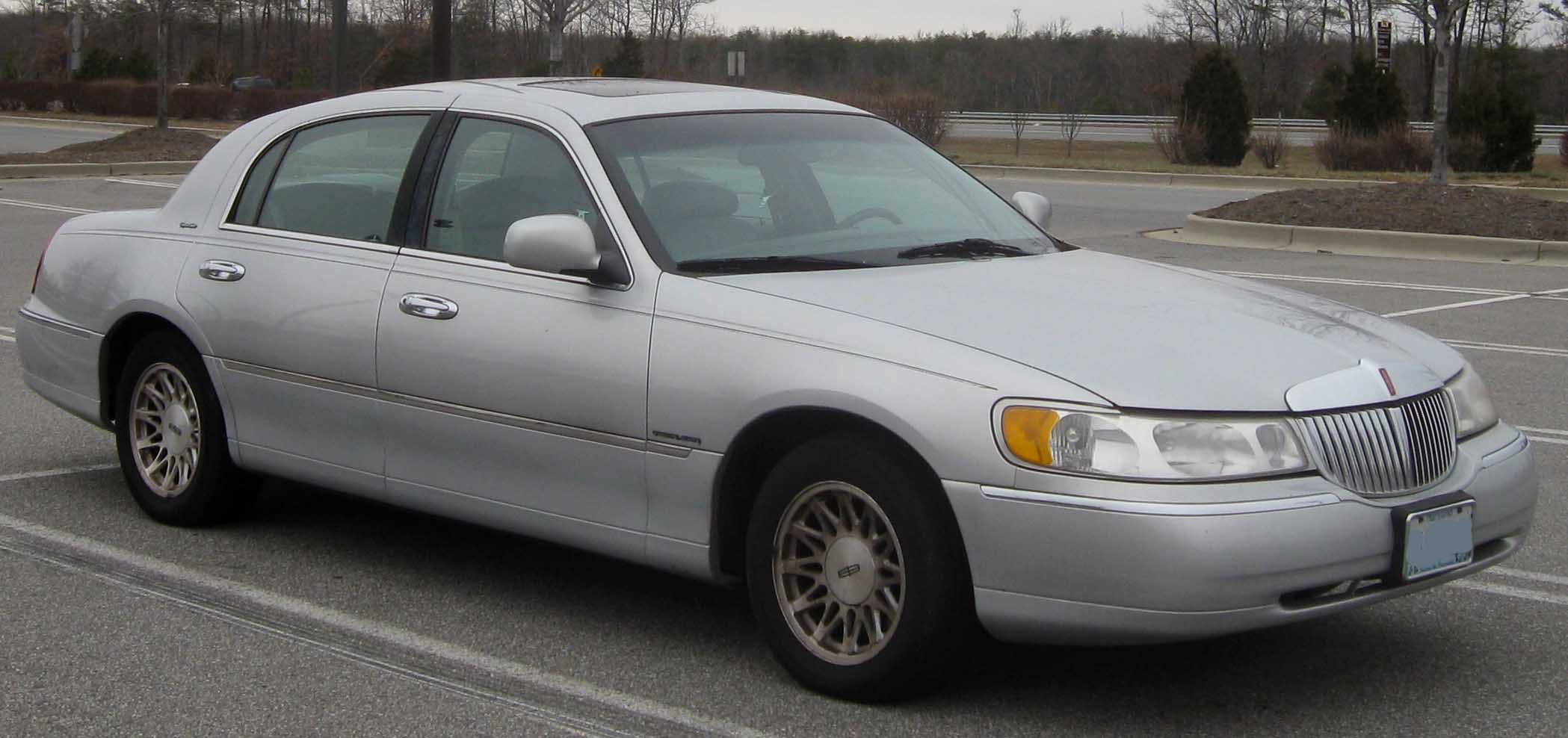 1998-2002 Lincoln Town Car photographed in Accokeek, Maryland, USA.